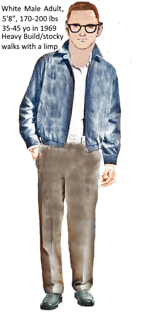 The zodiac killer description in the 2007 documentary